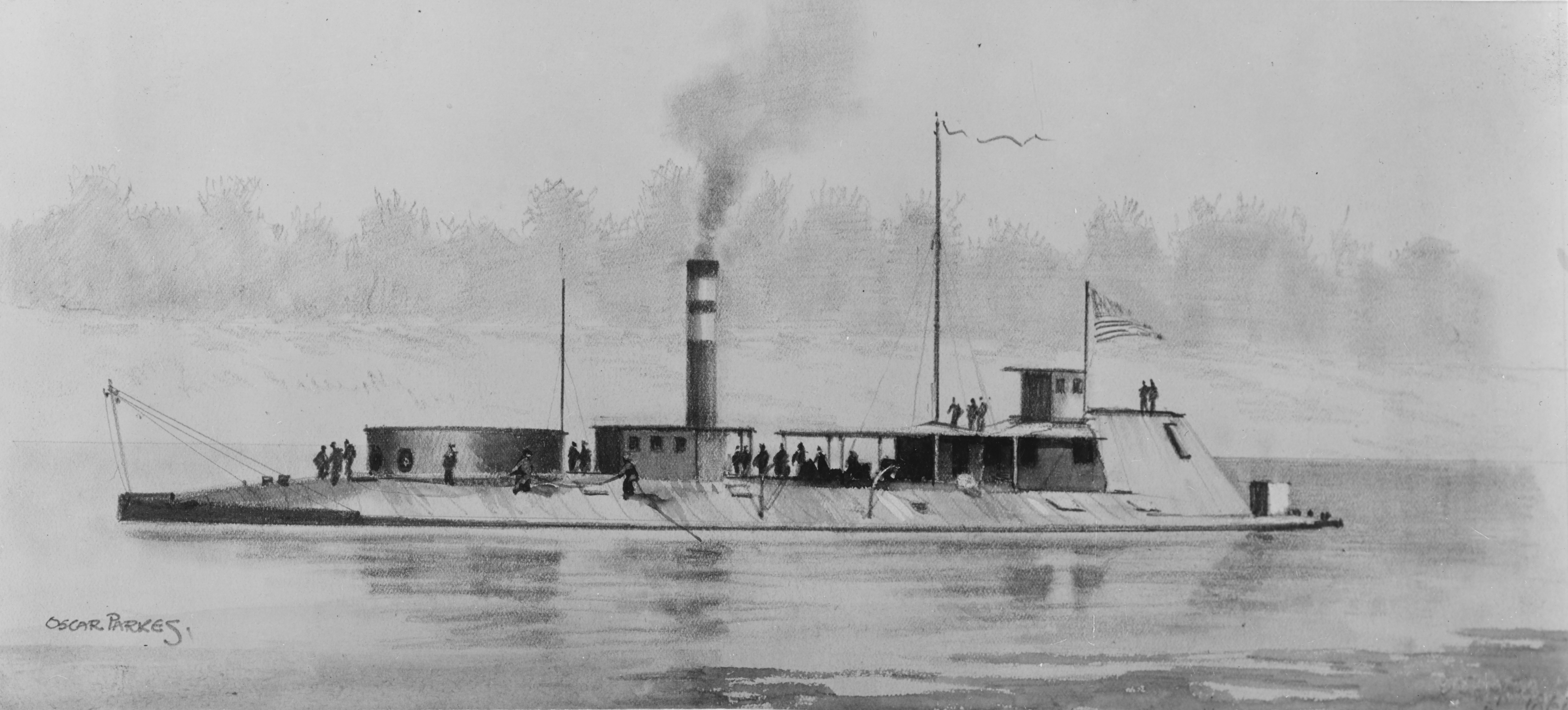 Watercolor by Dr. Oscar Parkes. Courtesy of Dr. Oscar Parkes, London, England, 1936. U.S. Naval History and Heritage Command Photograph.